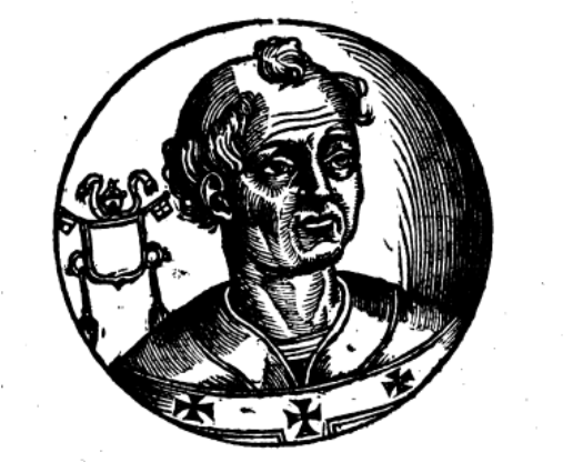 Anastasius III, drawn extracted by Bartolomeo Sacchi said Platina, Vite De' Pontefici, edited by di Onofrio Panvinio, per i tipografi Turrini, e Brigonci, Venice 1663